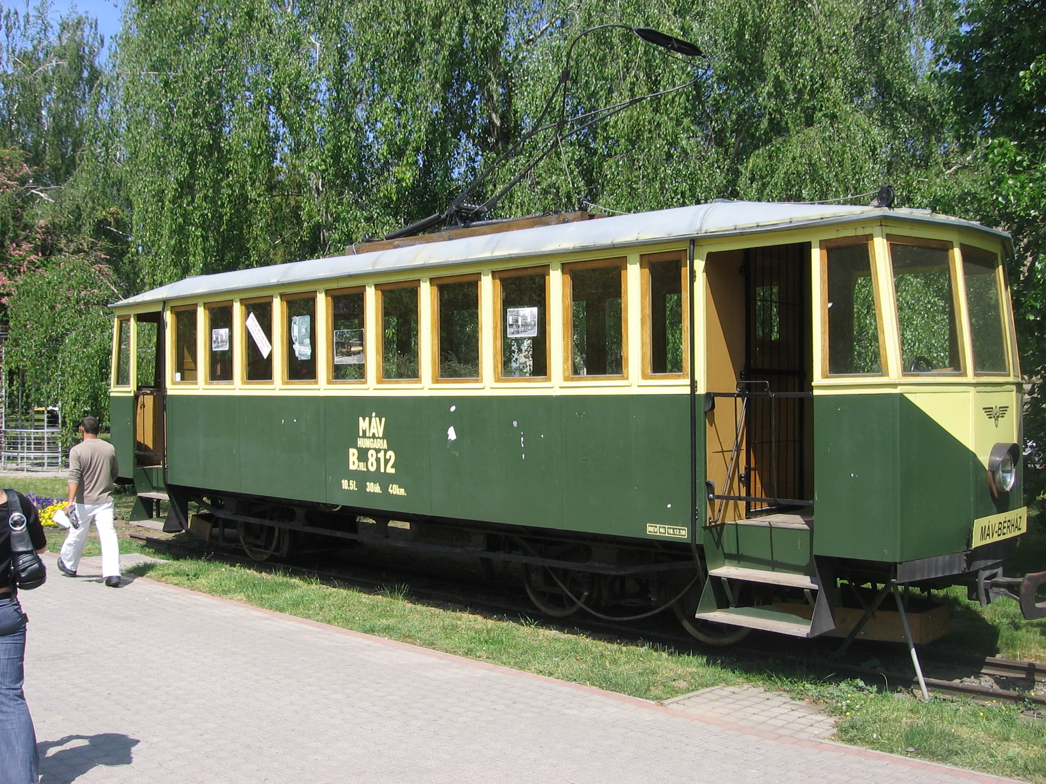 Old tram at Hősök tere in Nyíregyháza